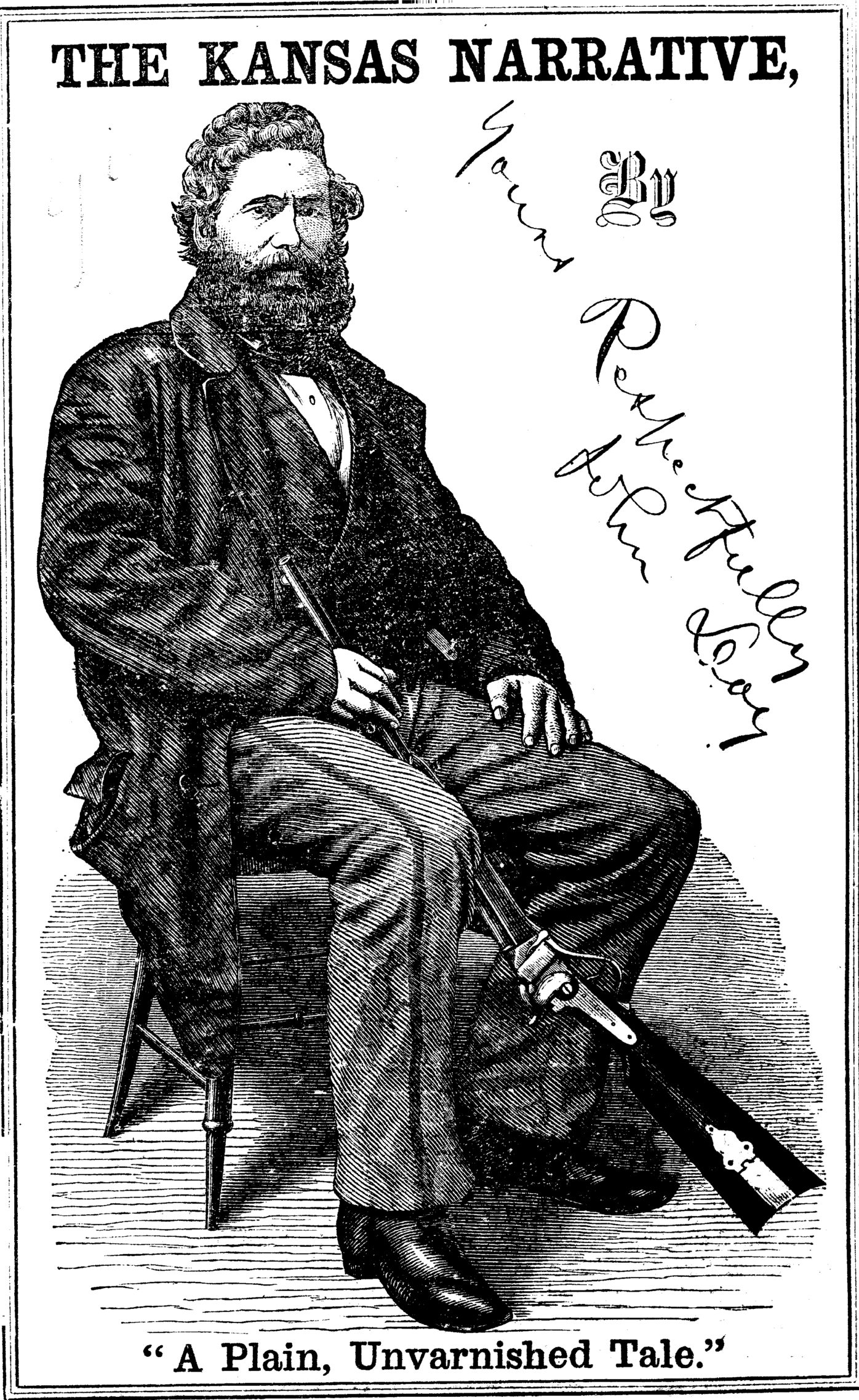 Abolitionist John Doy, published in John Doy. The Narrative of John Doy, of Lawrence, Kansas: "A Plain, Unvarnished Tale." New York, Thomas Holman, Printer, 1860, Frontispiece